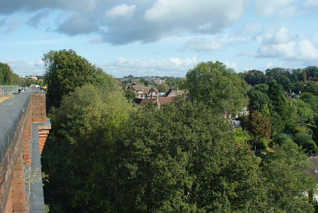 View From Imberhorne Viaduct, East Grinstead (2) Looking back along the viaduct, in the direction of East Grinstead. The parapets are at least seven feet high; even the step up into one of the refuges require the camera to be above head height in order to take a photograph. Originally built to accommodate a double-track railway, when the Bluebell Railway is re-opened to East Grinstead, the line will be single-track across the viaduct.